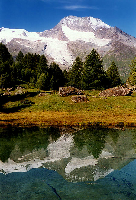 Mont Pourri from Ste-Foy-de-Tarentaise